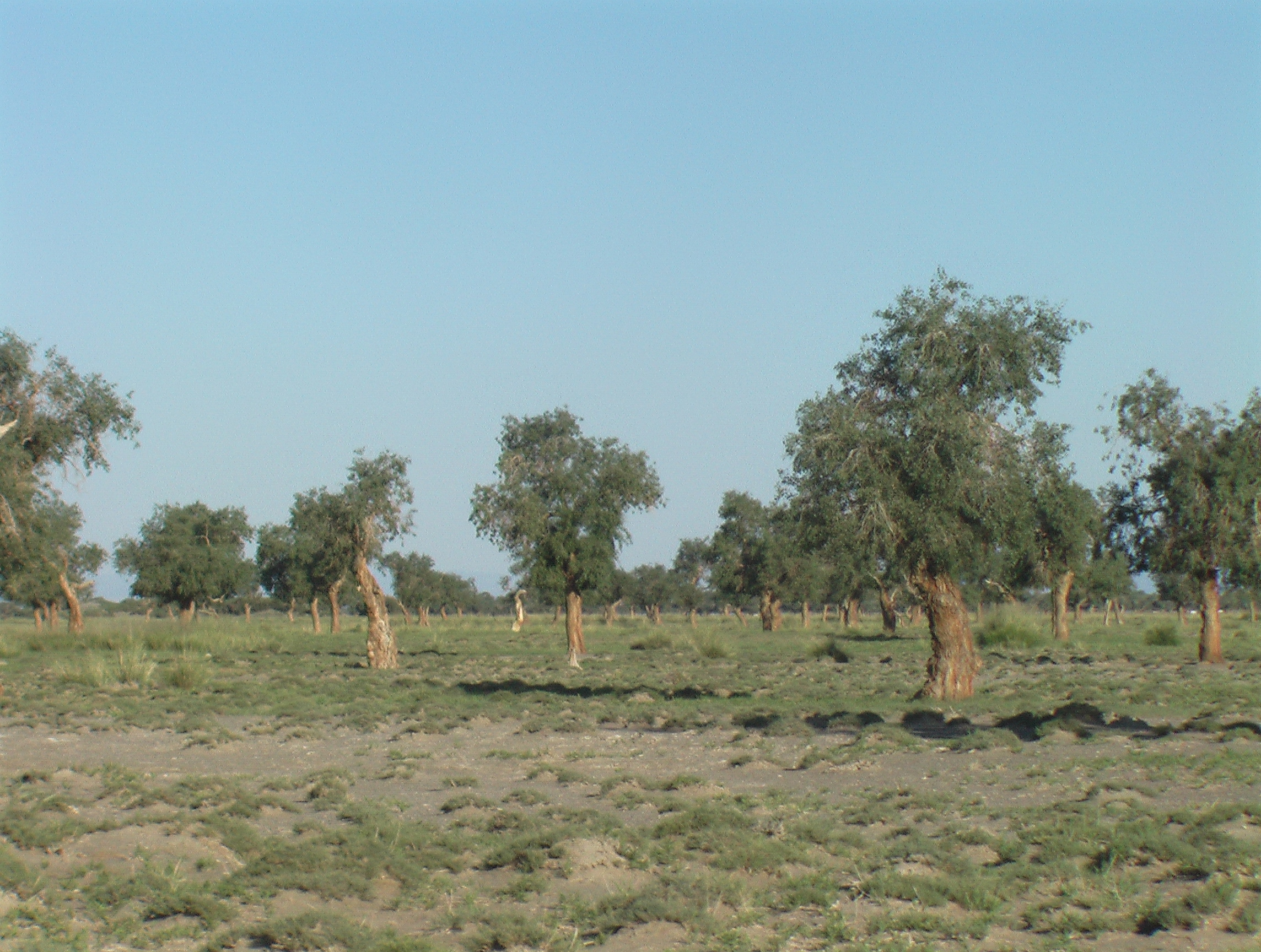 Populus euphratica (syn. P. diversifolia) in Bayantooroi oazis, Gobi desert, Tsogt sum, Govi-Altai aimag, western Mongolia